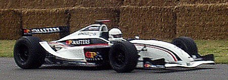 A 2005 Grand Prix Masters car being driven up the hill at the 2006 Goodwood Festival of Speed.